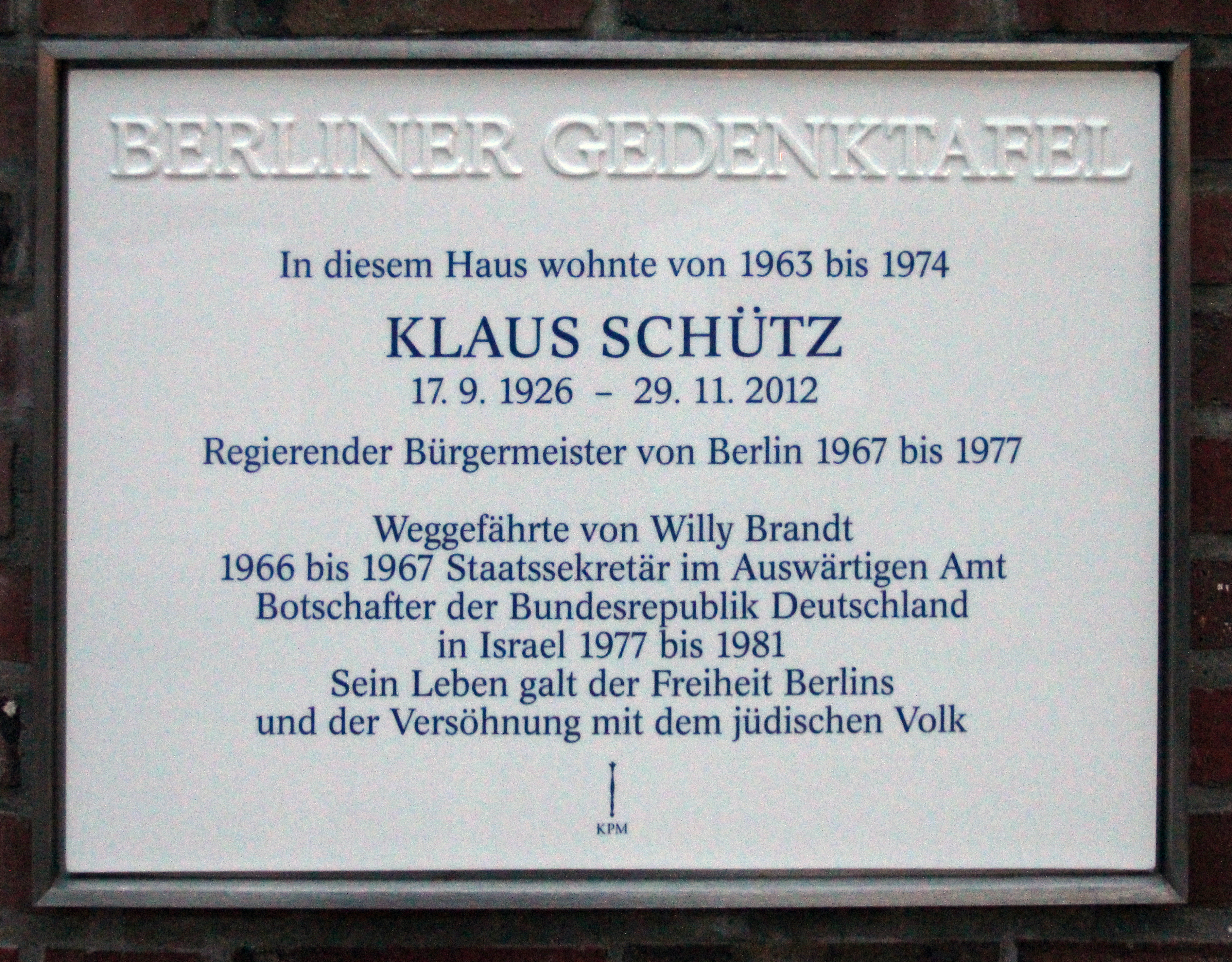 Berlin memorial plaque, Klaus Schütz, Johannisberger Straße 34, Berlin-Wilmersdorf, Germany